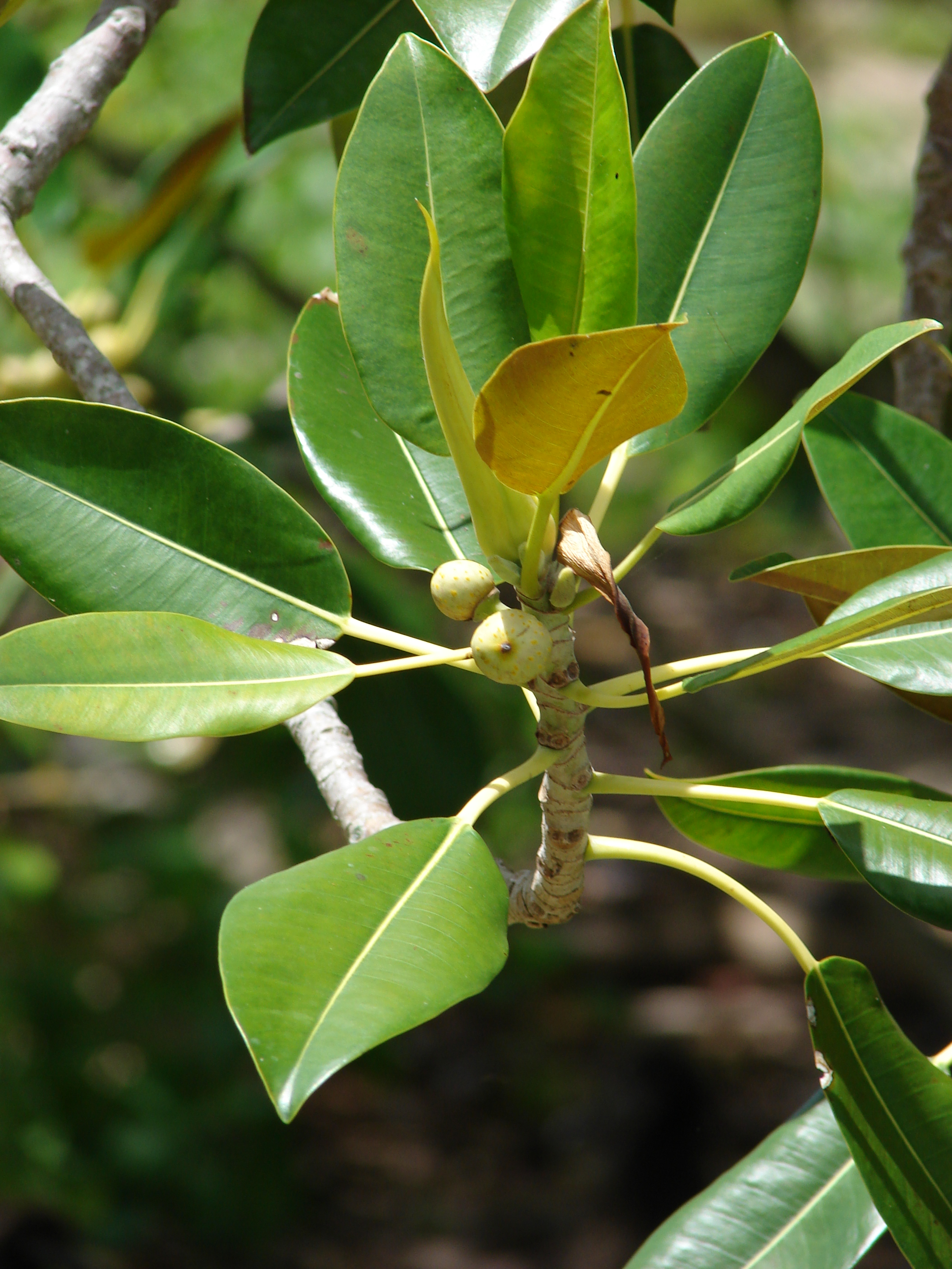 Ficus macrophylla (leaves). Location: Midway Atoll, West Beach Sand Island